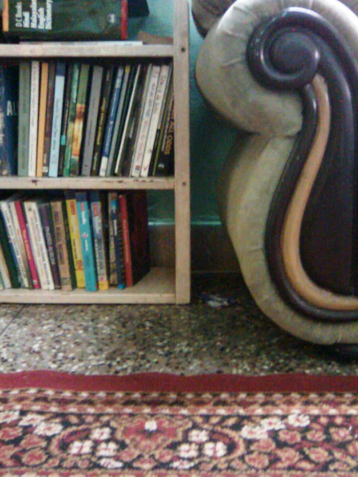 Book Case, Income Tax Quaraters, Kannur, Kerala, India.